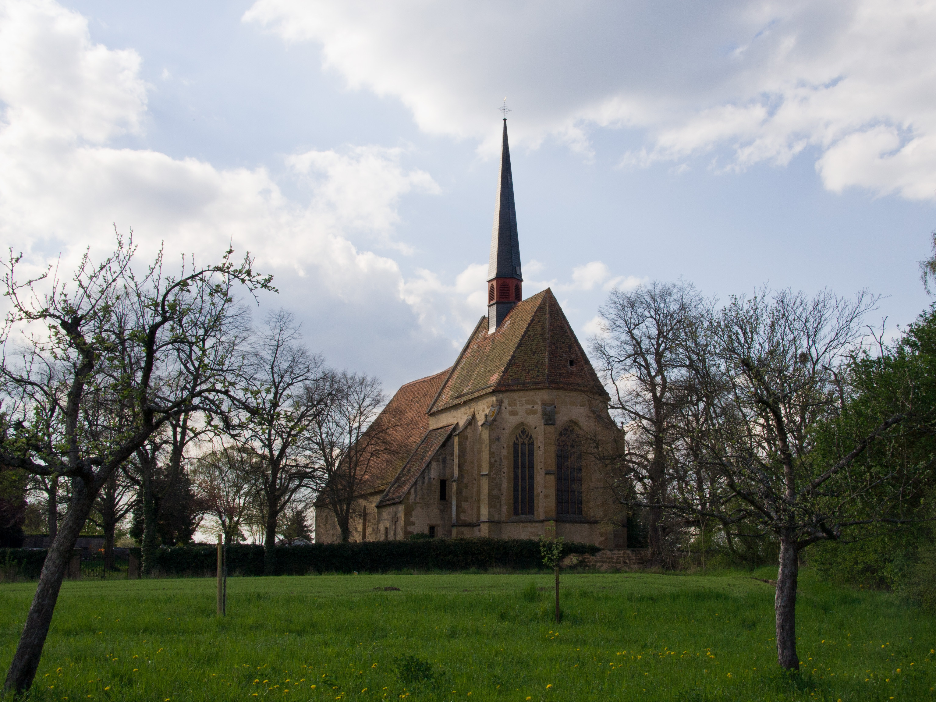 View of the Church of Our Lady in Lienzingen. Location is north-east of the church.